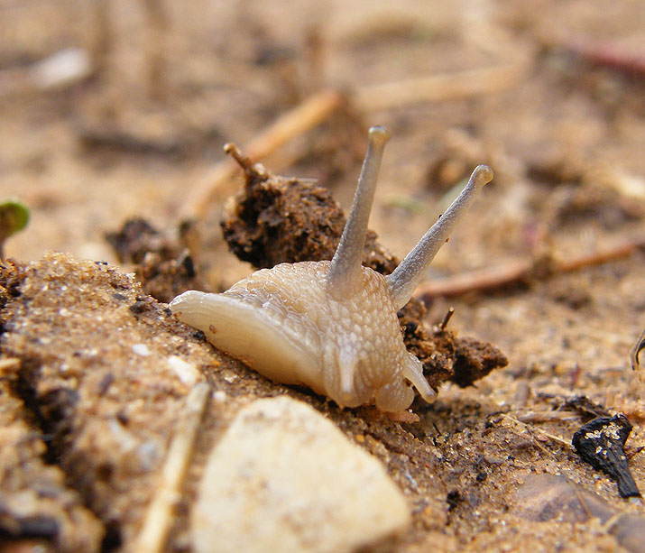 Helix engaddenis awaking from summer sleep, after the great drought of 2010, Israel